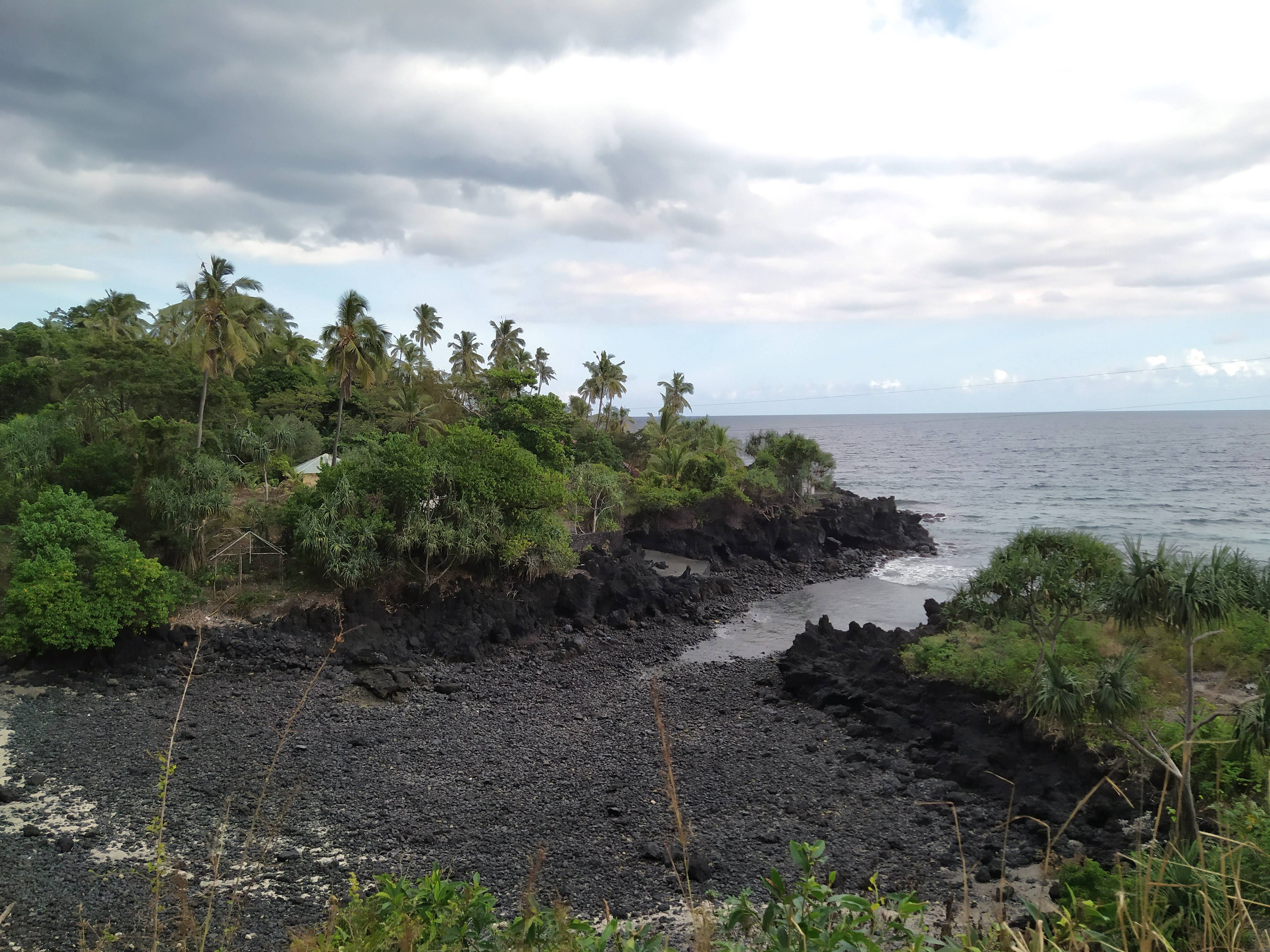 Black volcanic shores of Grande Comore, Comoros